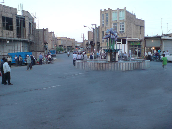 central square of Bonab.